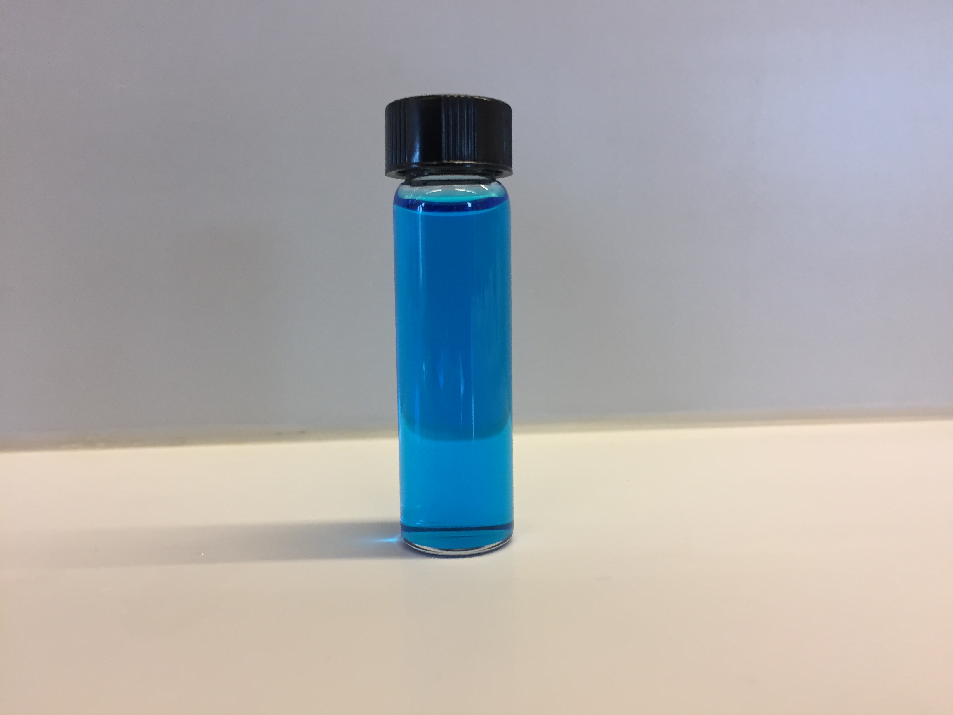 Aqueous solution of copper(II) nitrate